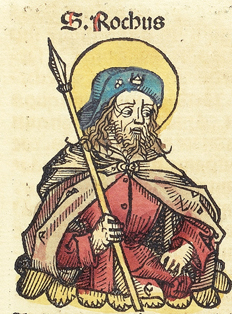 Woodcut from the Nuremberg Chronicle (Latin edition in Sao Paulo)